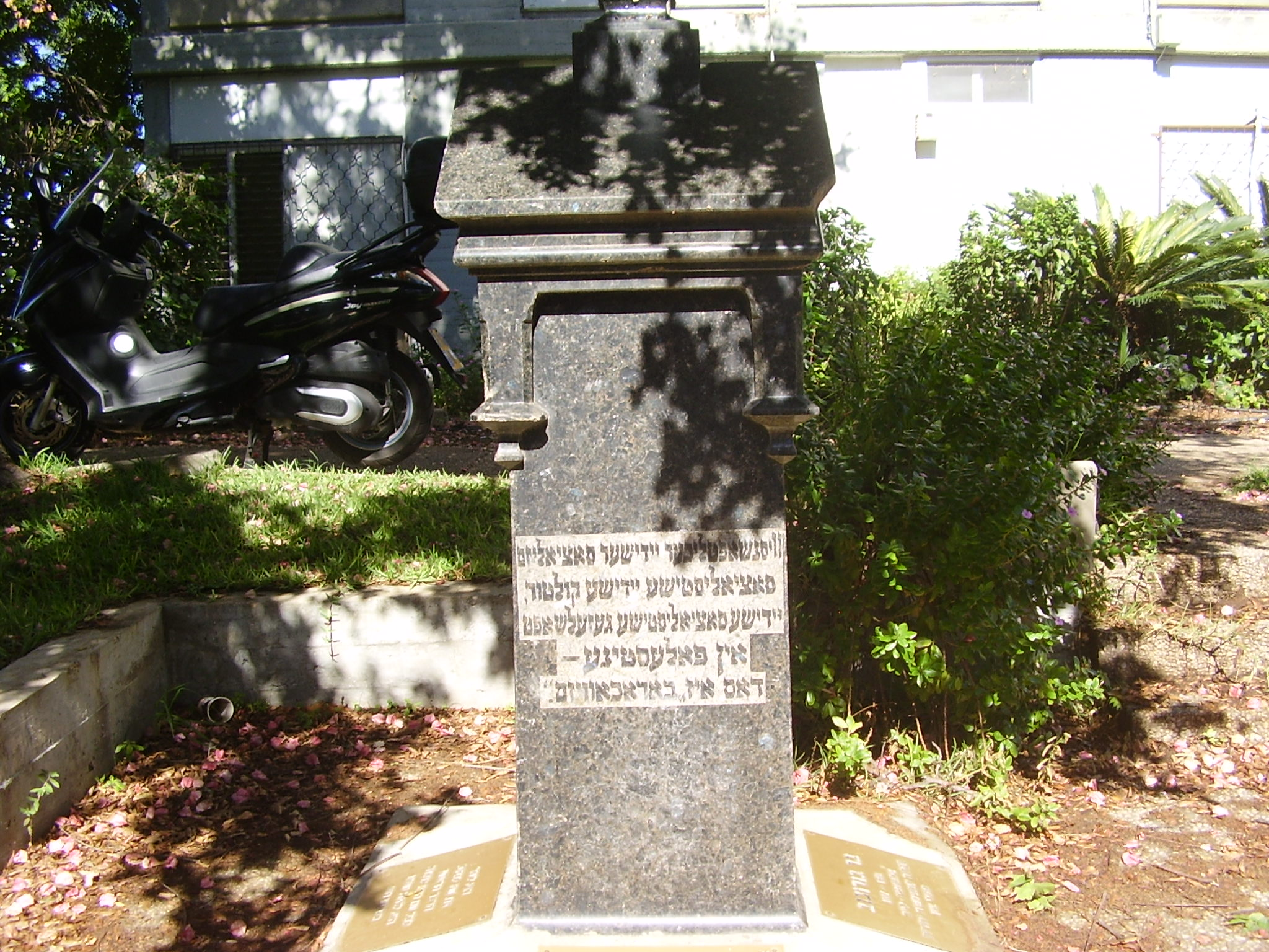 ber borochov tombstone in ramat ef'al